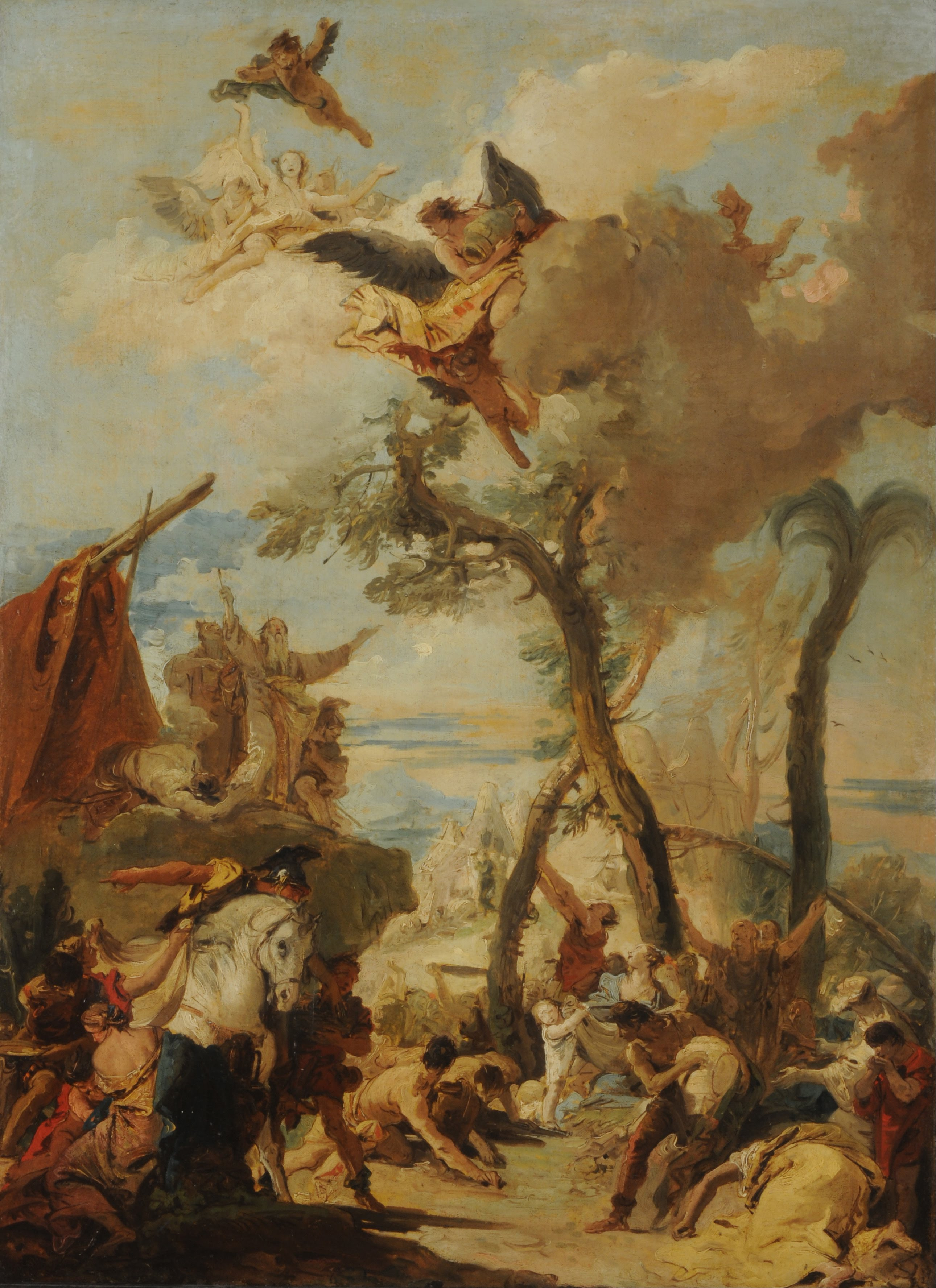 The Hebrews gathering Manna in the Wilderness